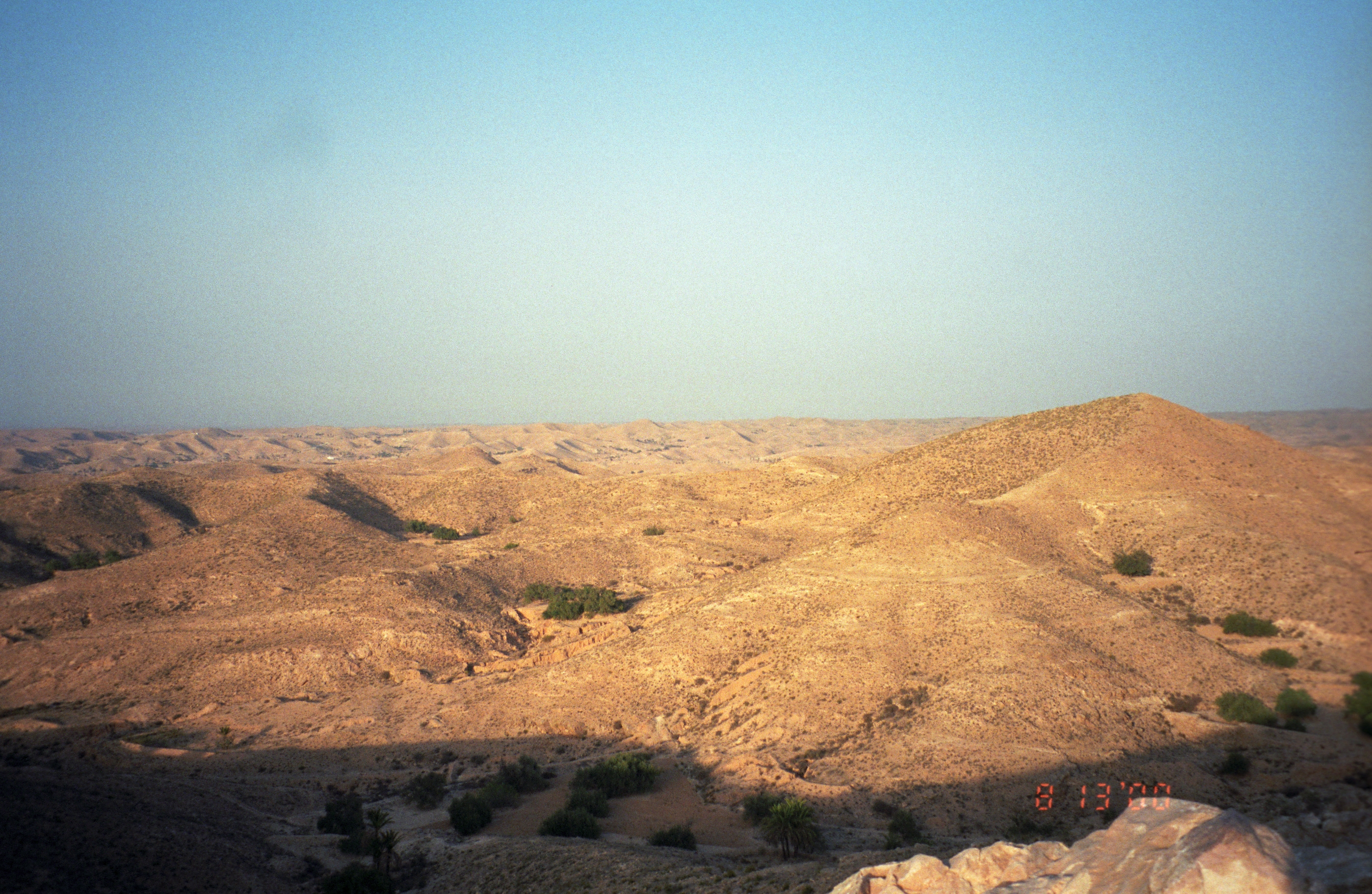 Matmata Mountains in Southern Tunisia